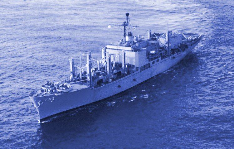 Image taken from NavSource ( Original photograph by USS Niagara Falls Medical Officer.